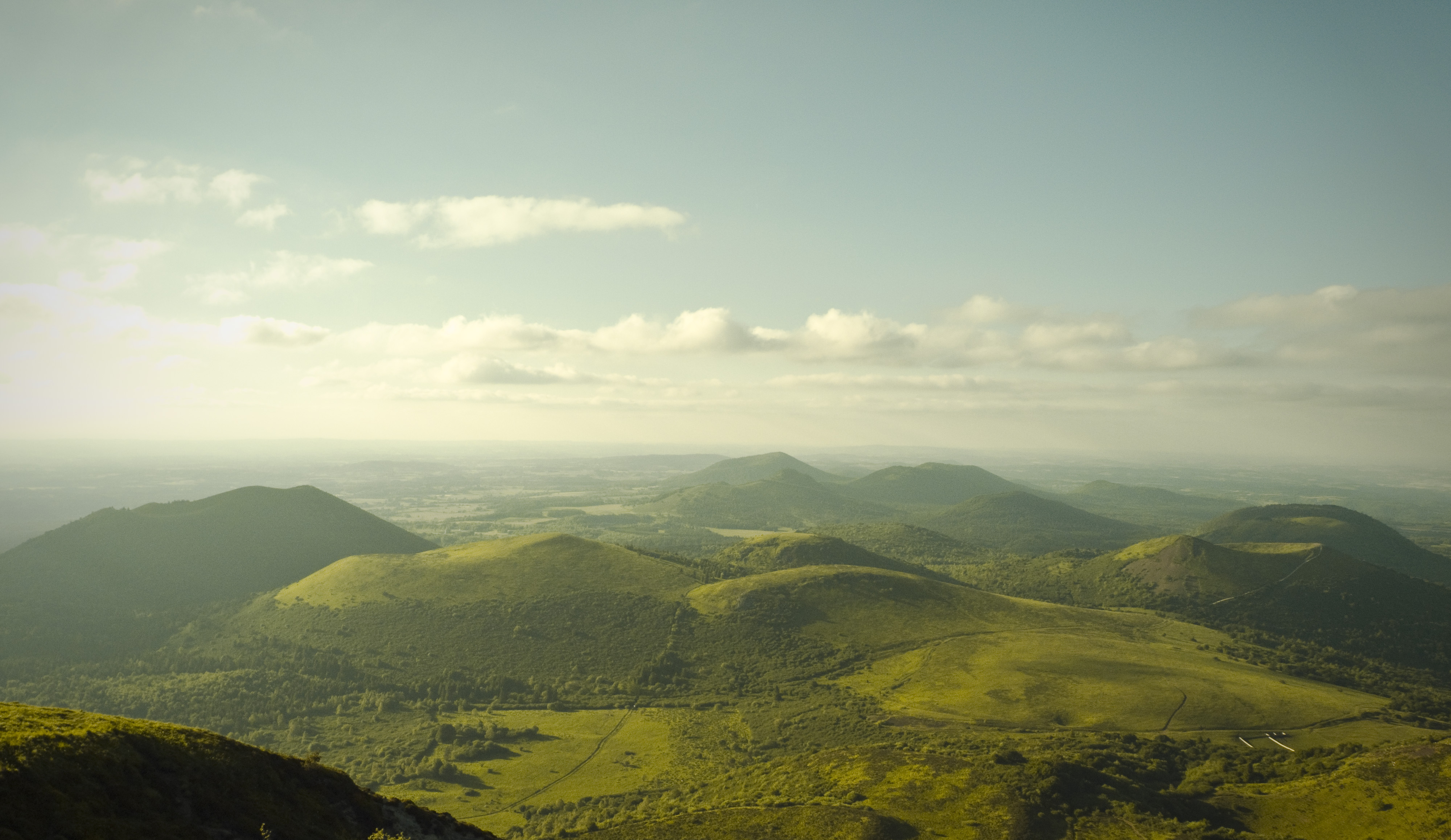 Volcanoes in Auvergne, France.